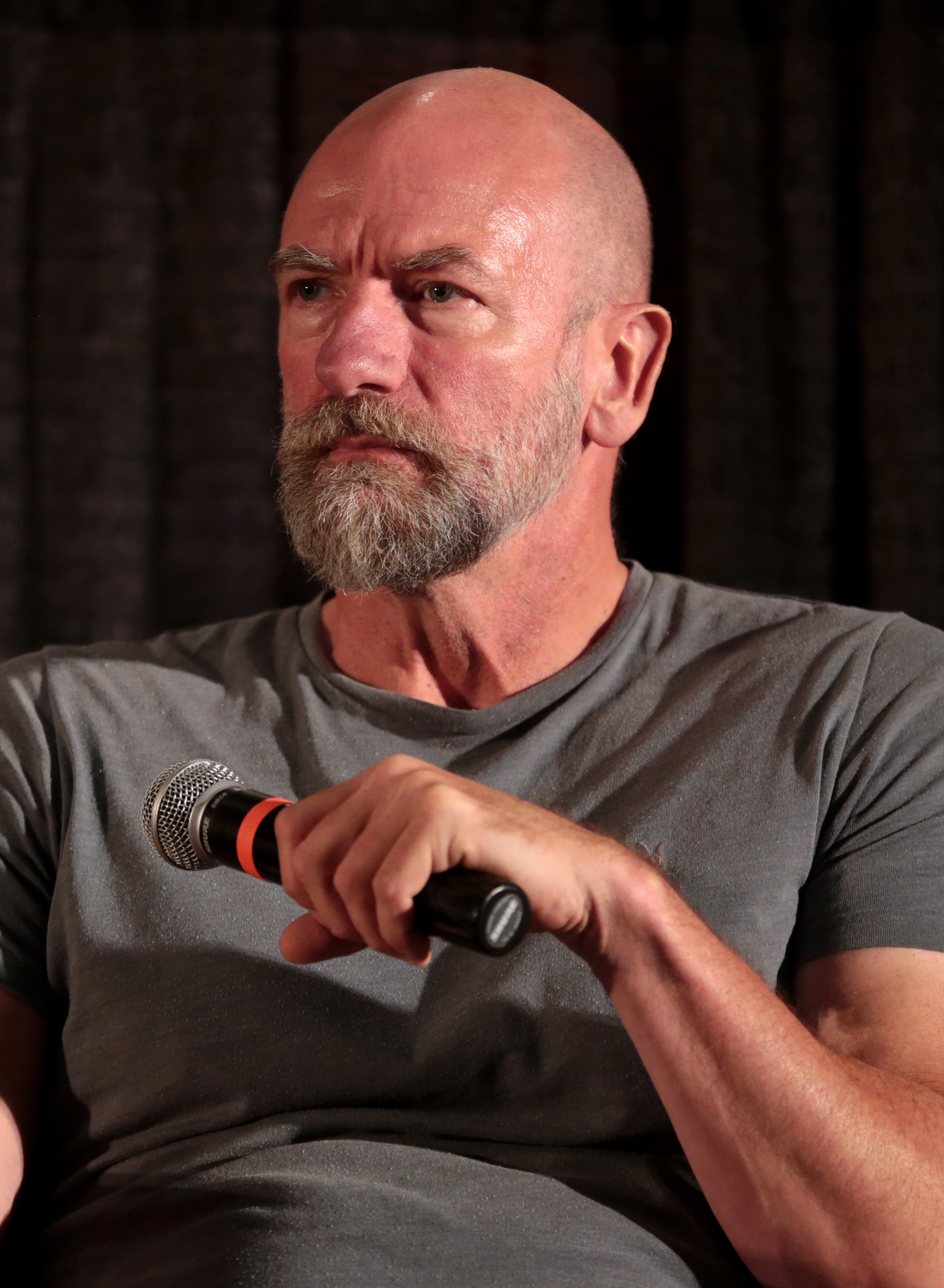 Graham McTavish speaking at the 2018 Phoenix Comic Fest in Phoenix, Arizona.